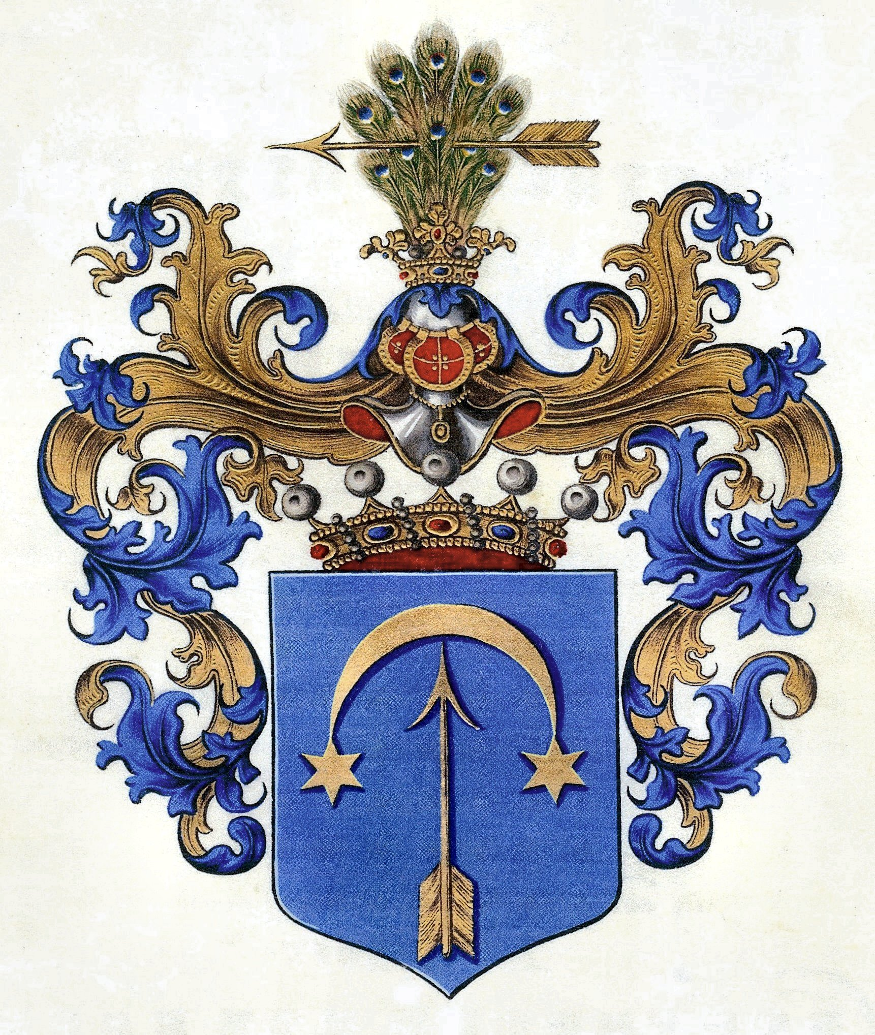 Coat of arms of the barons Wassilko von Serecki. Depiction as shown in the patent of nobility of July 14, 1855.